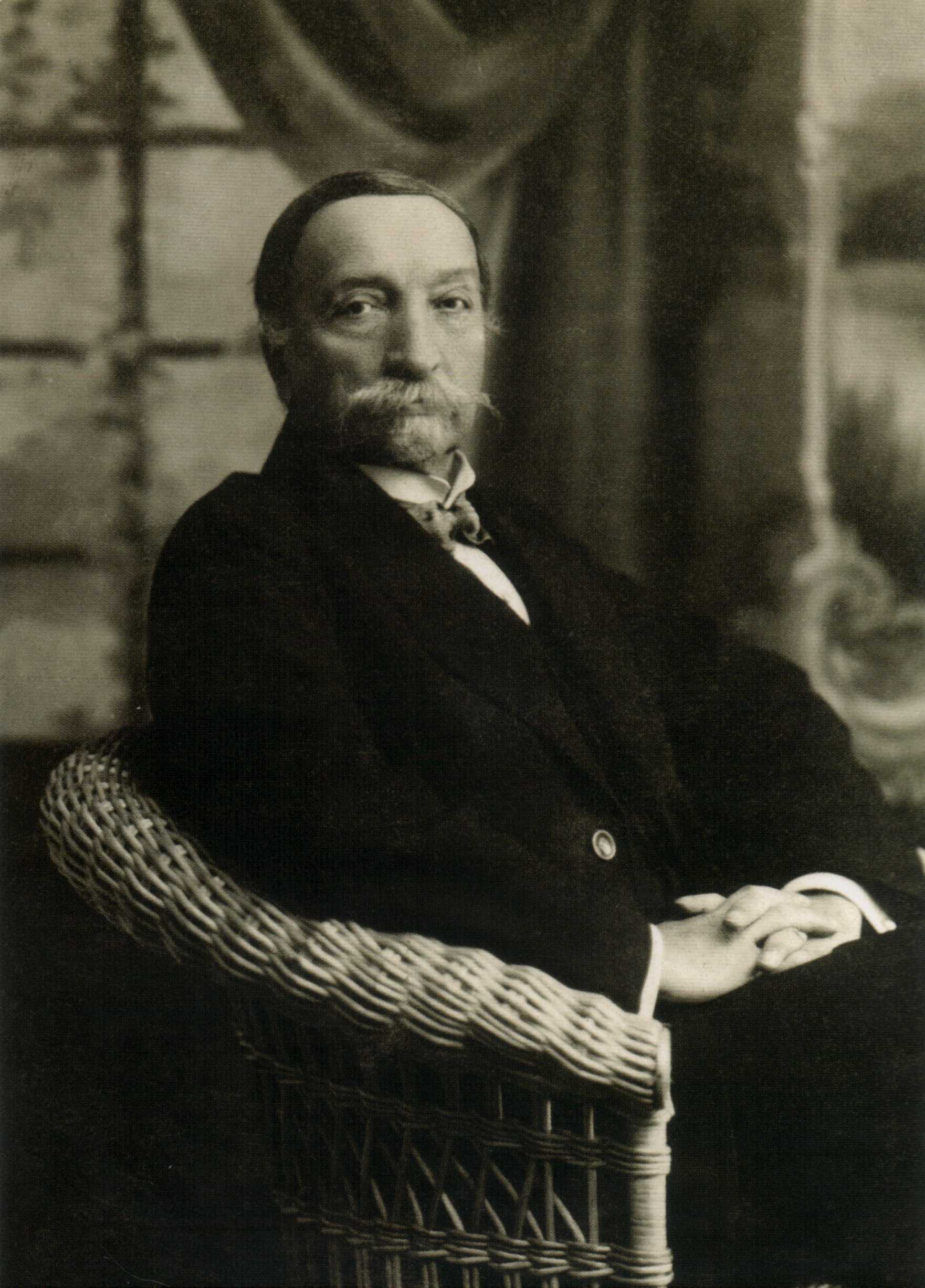 Edward Woynillowicz (1847–1928), leader of Minsk agricultural society